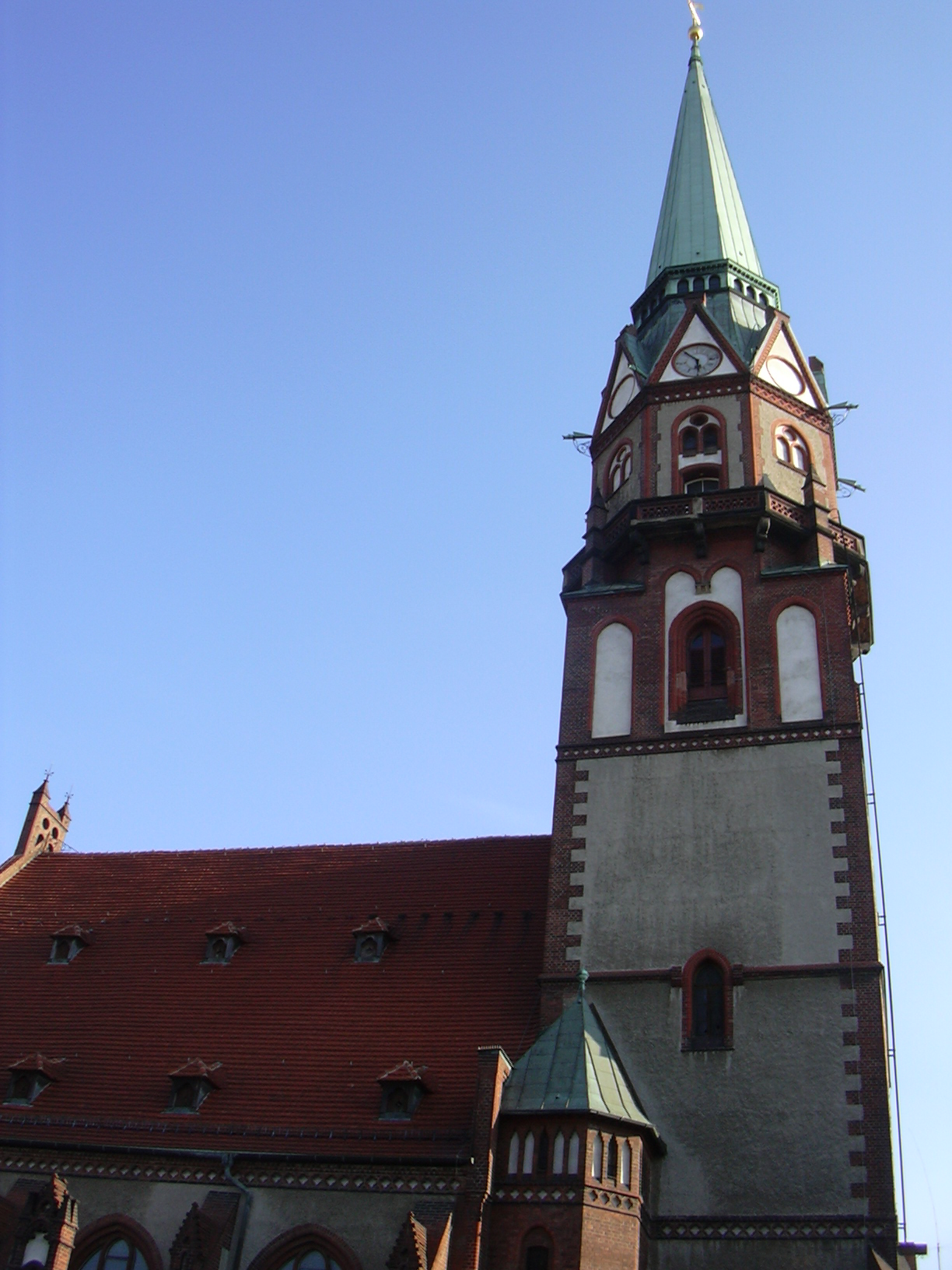 Tower of the Saint Nicholas church in Löbau in Saxony, Germany.